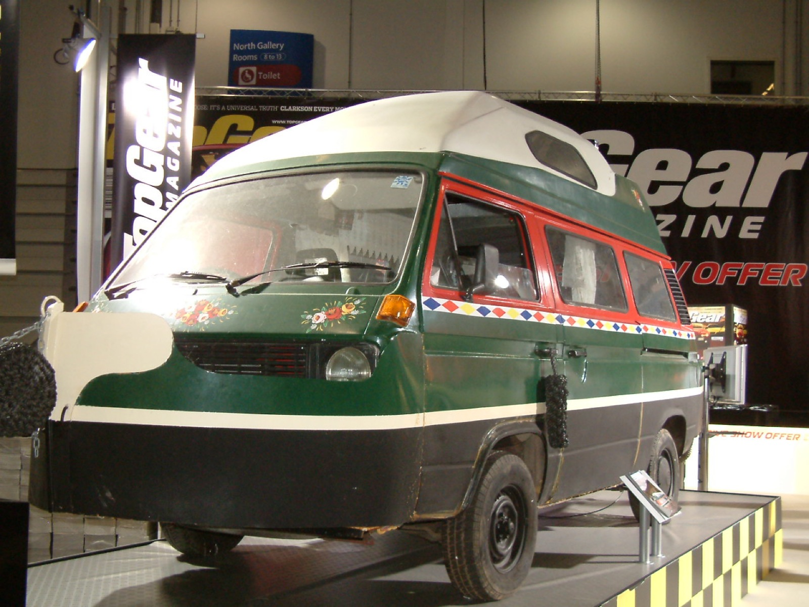 Top gear presenter Richard Hammond's amphibious "Dampervan".